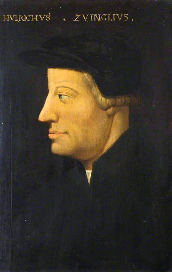 Portrait of Ulrich Zwingli (1484-1531)